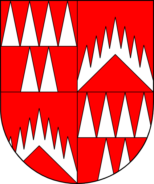 Coat of arms (shield only) of Protáz (Tas) Černohorský z Boskovic, bishop of Olomouc, Czech Republic (1457 - 1482).